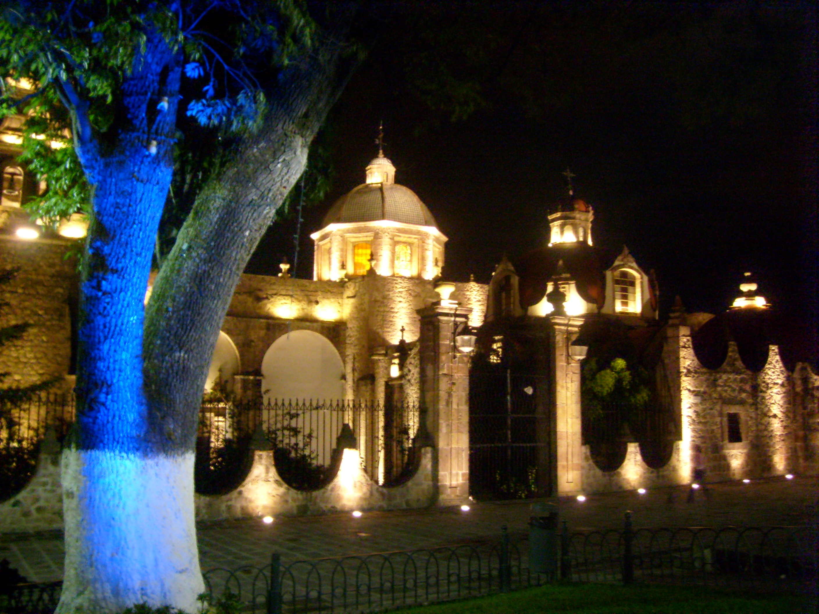 este es el parque que esta a lado de la casa de la cutura